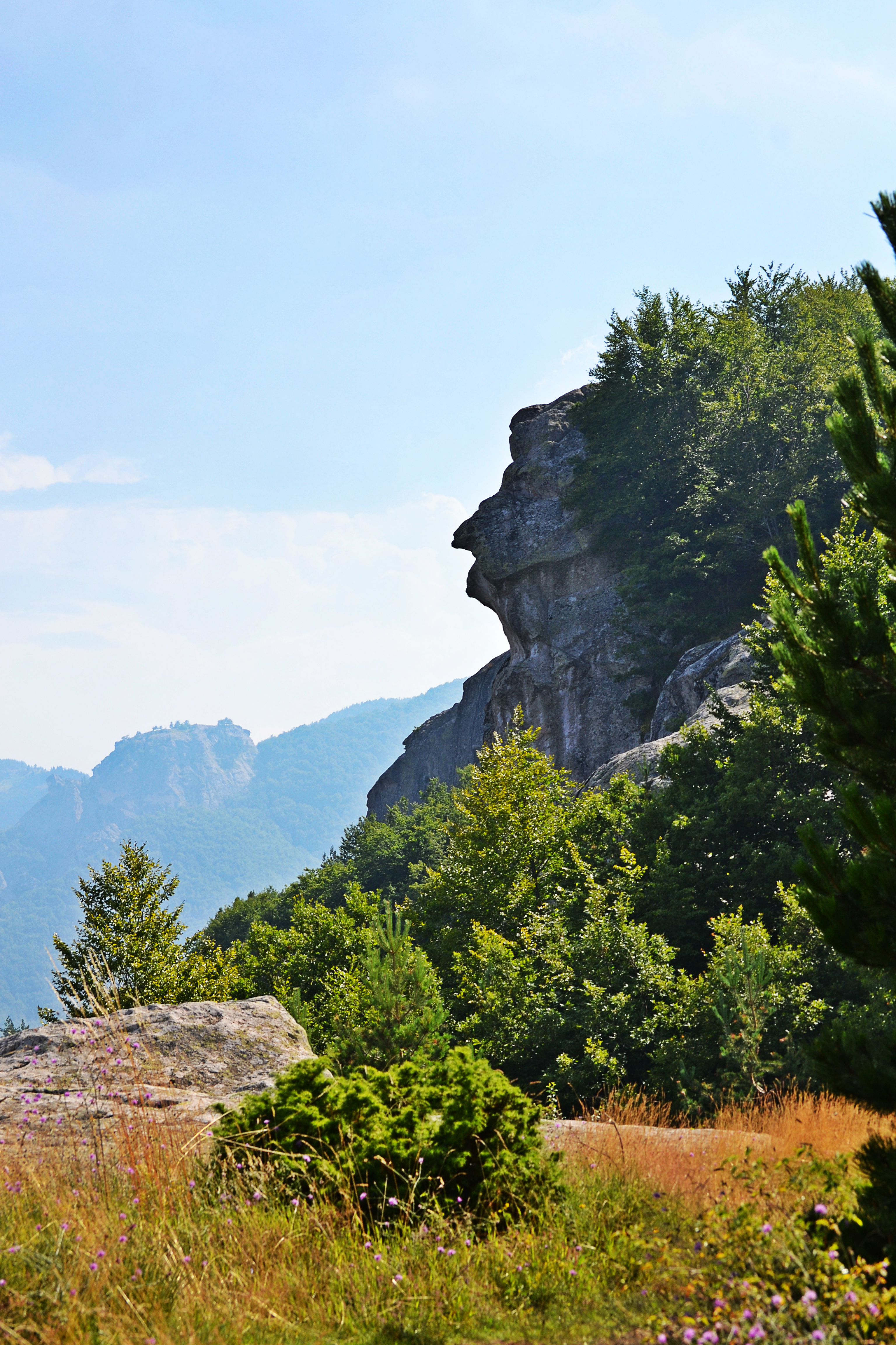 Sanctuarys' Sentinel Belantash Rodopa Mountain Bulgaria